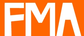 The letters "FMA" in white against an orange background.